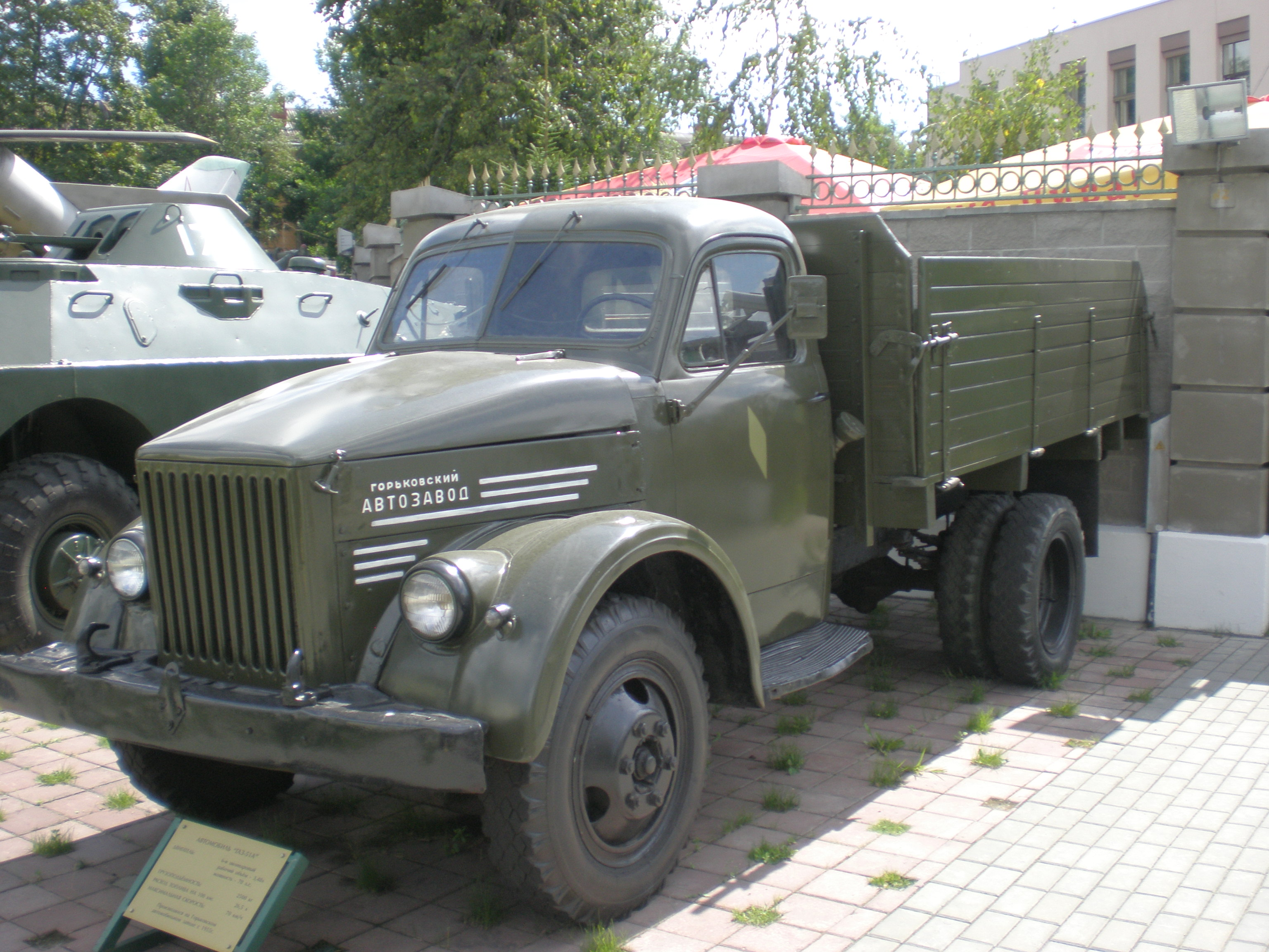 GAZ-51 in a military museum in Belarus.